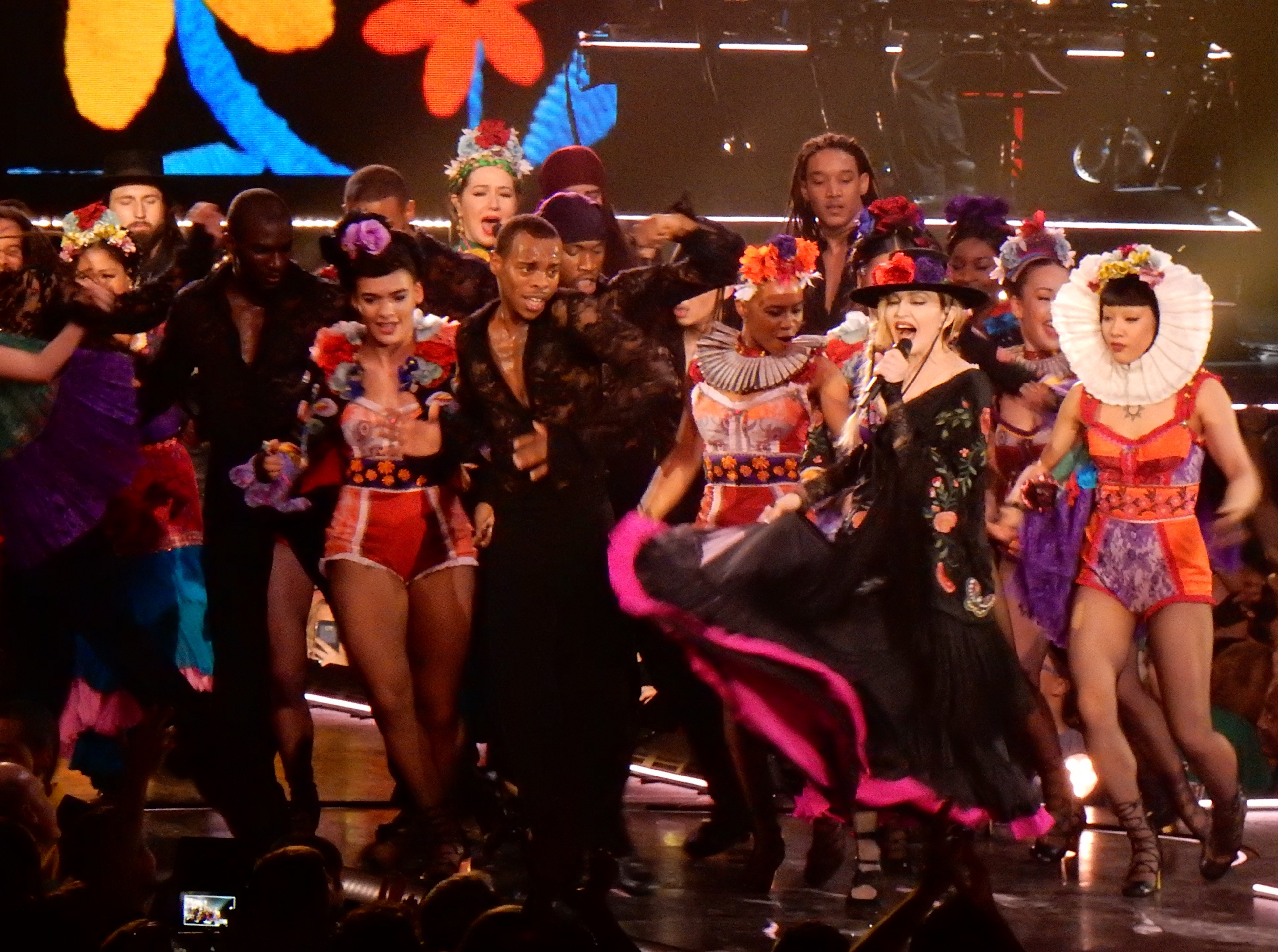 Madonna - Rebel Heart Tour 2015 - Washington DC